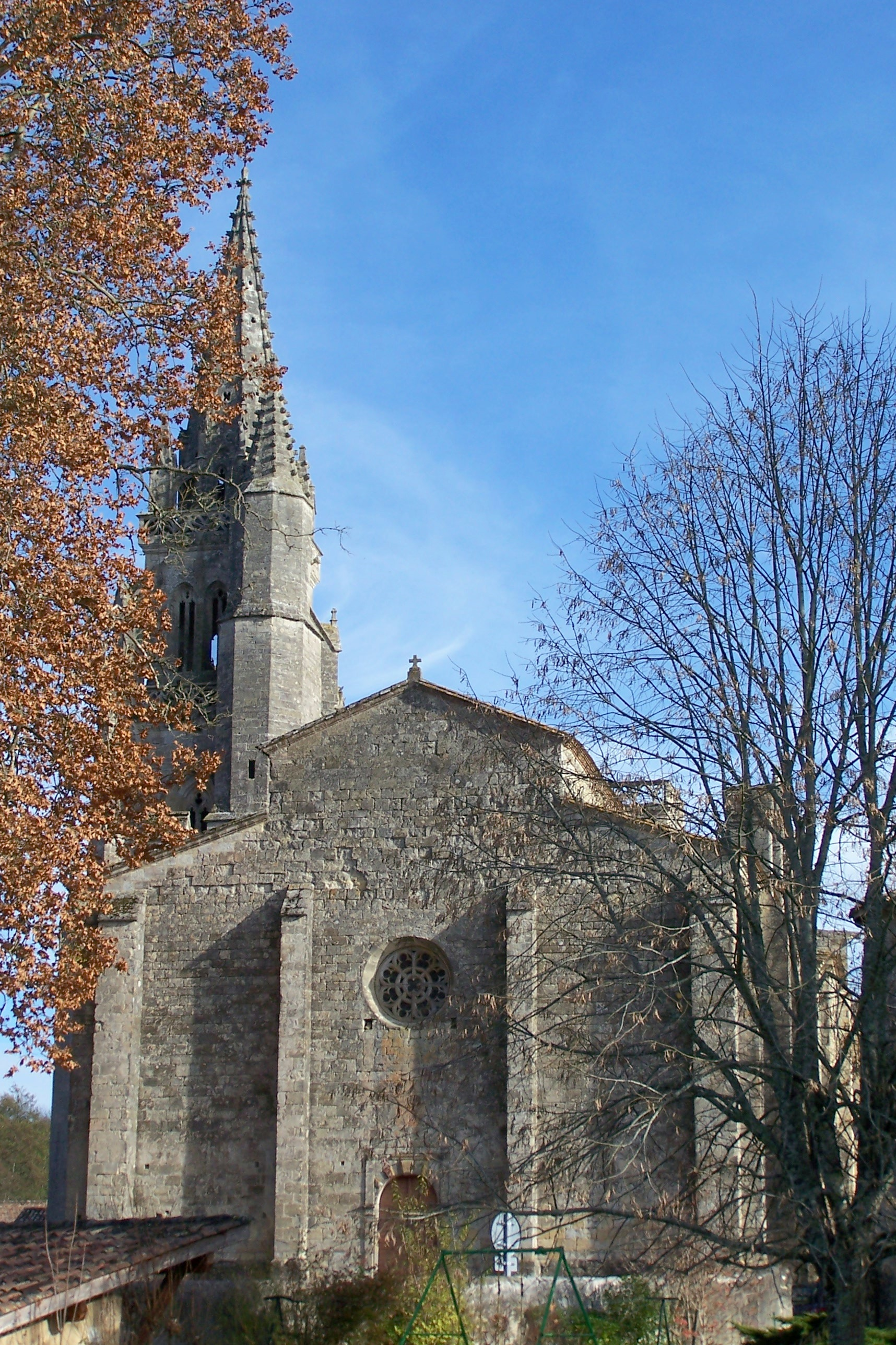 Collegiale Our Lady of Uzeste (Gironde, France)